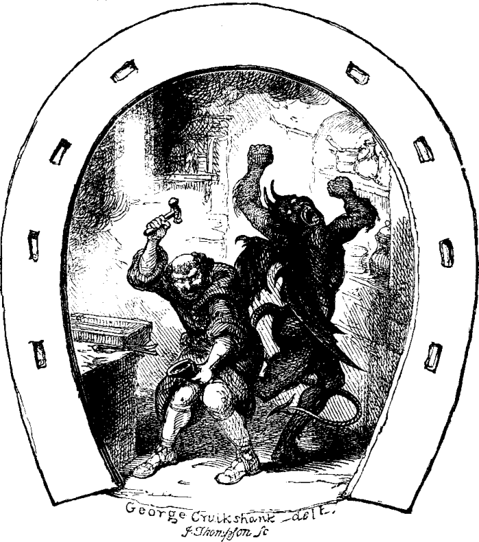 Dunstan and the Devil - Project Gutenberg eText 13978